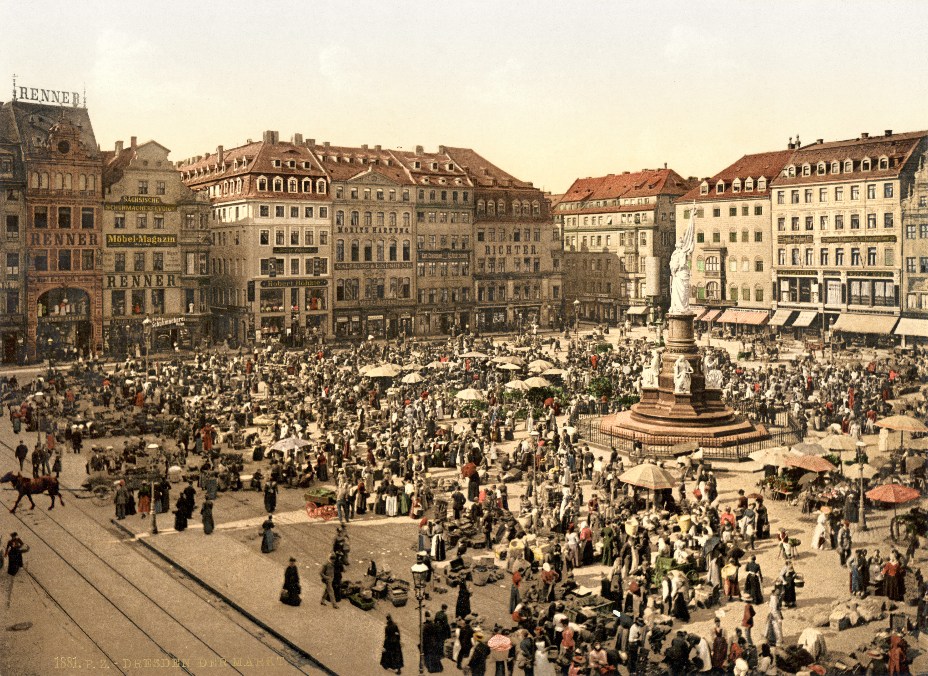 Photochrom print by Photoglob Zürich, between 1890 and 1900. From the Photochrom Prints Collection at the Library of Congress More photochroms from Germany | More photochrom prints [PD] This picture is in the public domain